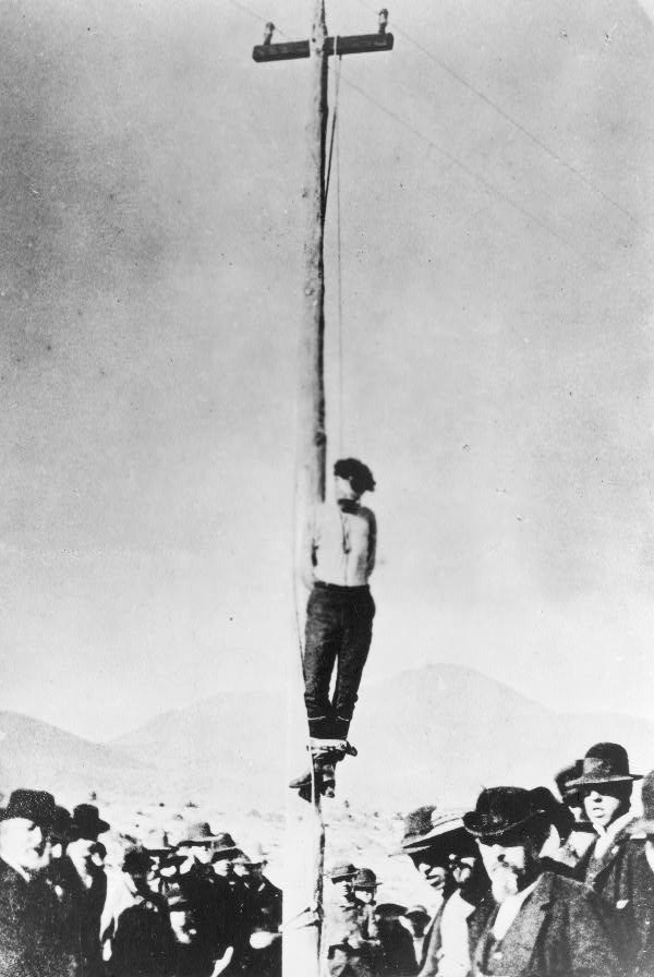 John Heith (also spelled "Heath"), lynched by a mob in Tombstone, Arizona on Feb. 22, 1884. From the photo collection of Noah Hamilton Rose, San Antonio, Texas. SUMMARY: The body of John Heith hanging from a telegraph pole.